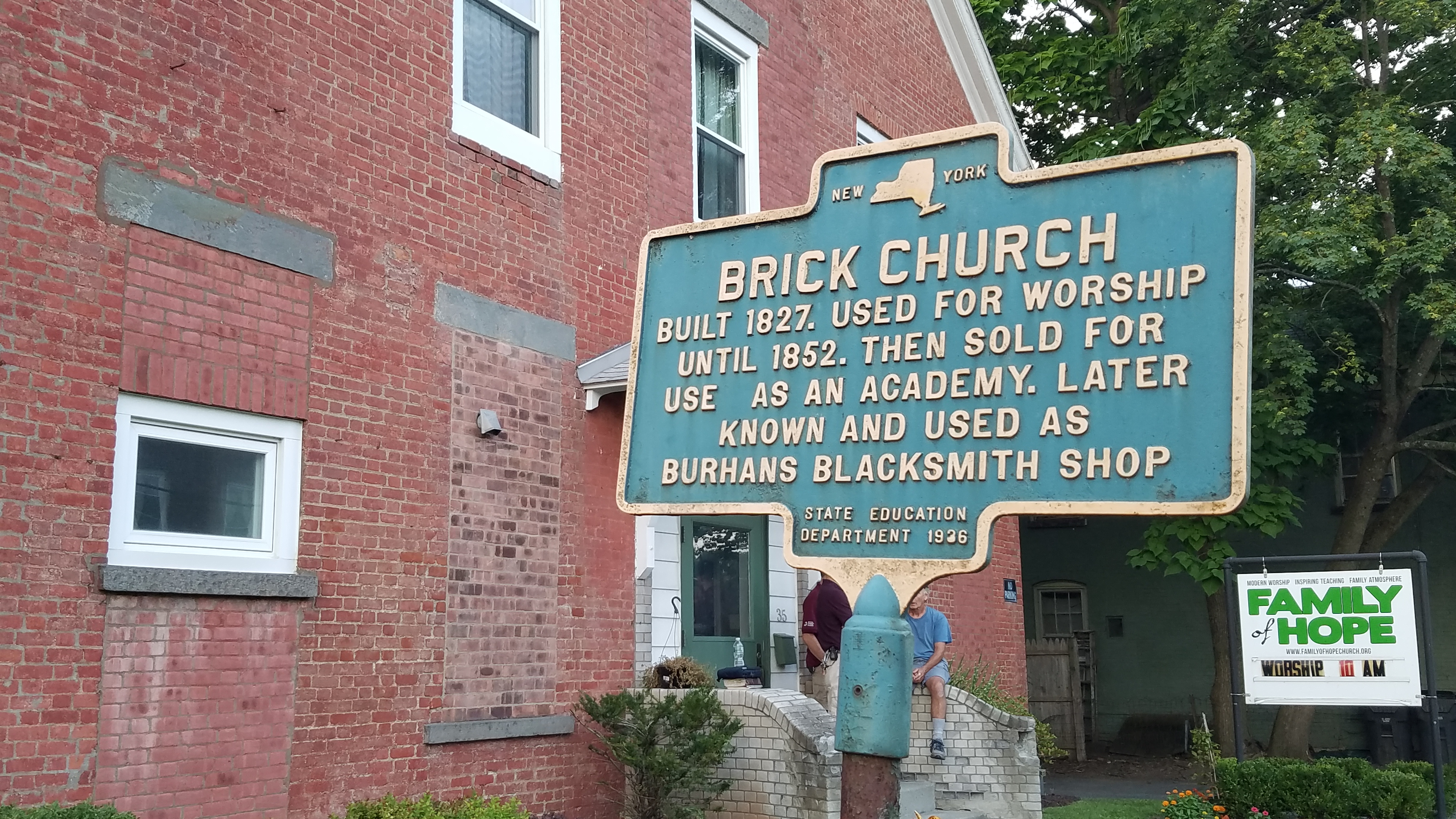 New York State historic marker for the Brick Church in Saugerties, New York..